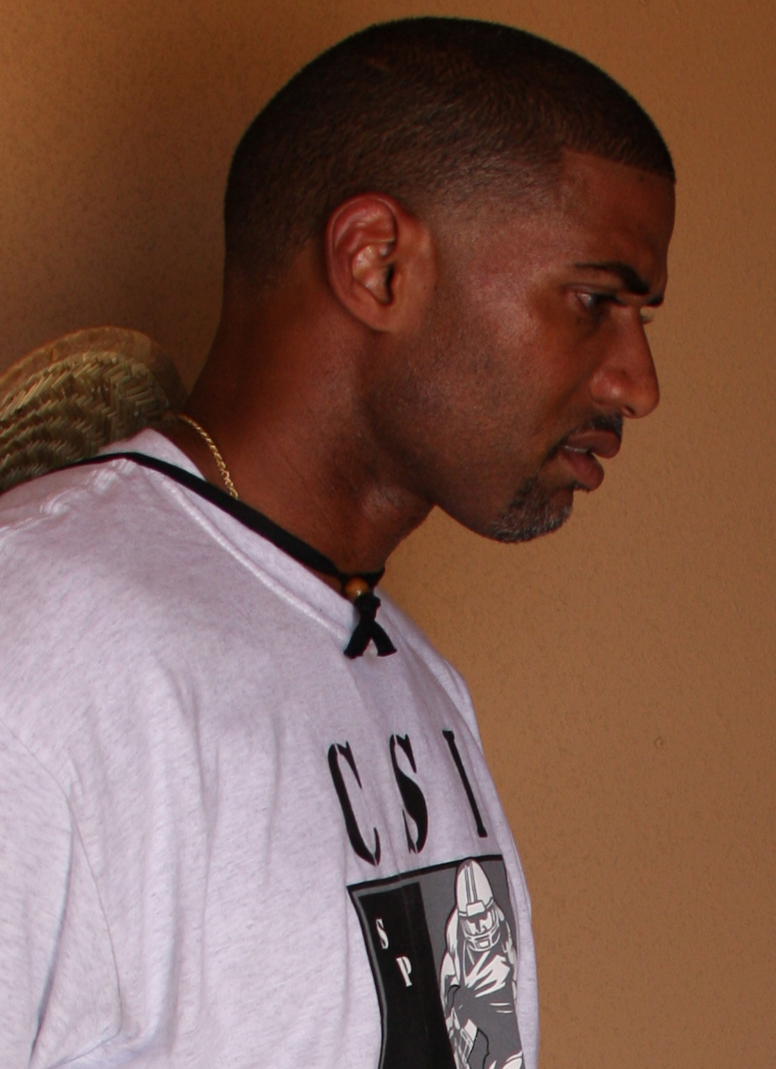 Maj. Michael R. Glass, the officer in charge of the Explosive Ordnance Disposal here, walks former Green Bay Packers Super Bowl XXXI champion Chris Hayes around a complex near Combat Center Ranges 210 and 215, July 15. Hayes spent his time at the Combat Center learning about combat training and teaching children his knowledge on football and athleticism.